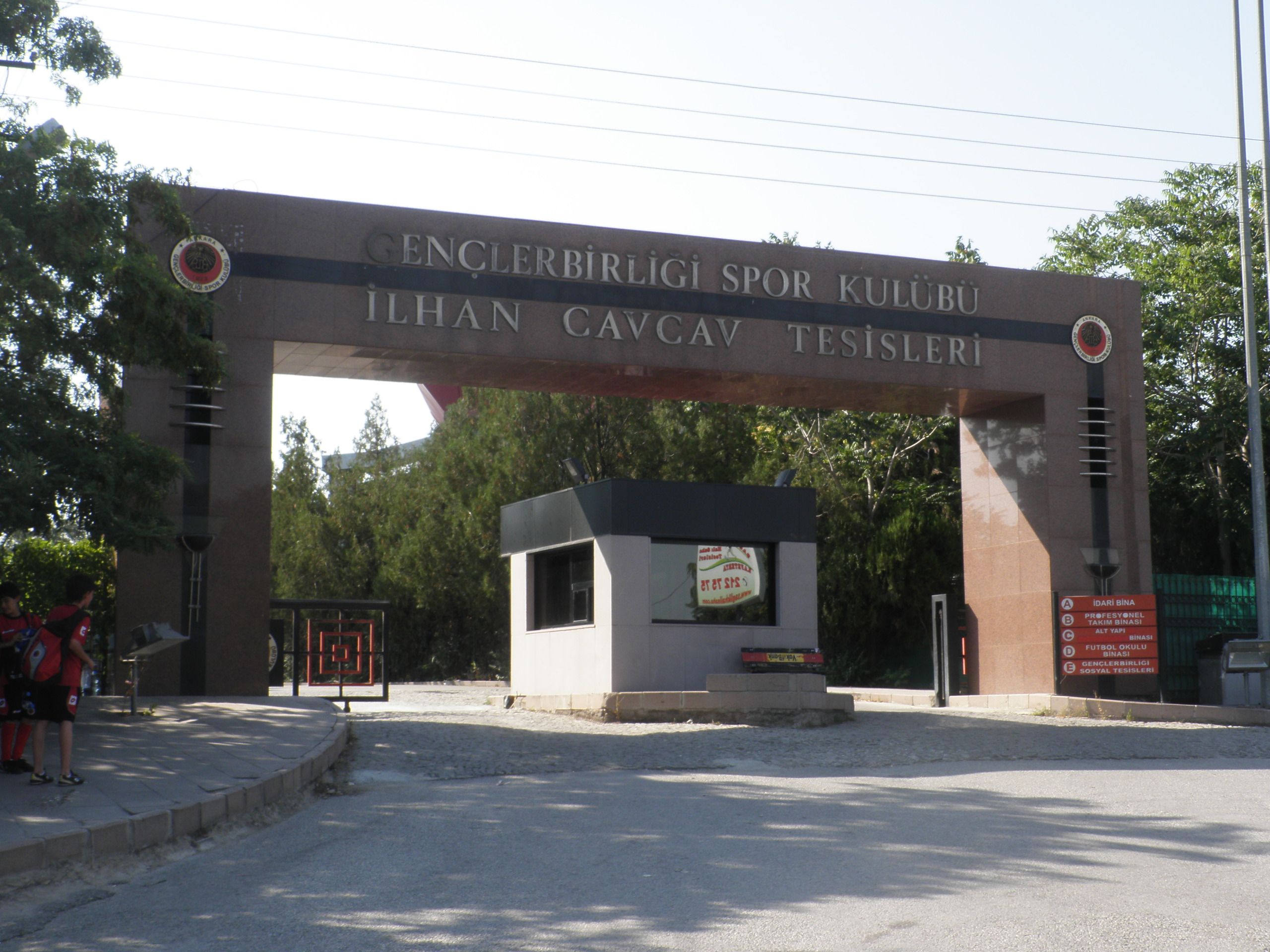 Gençlerbirliği SK Sport Facility in Ankara